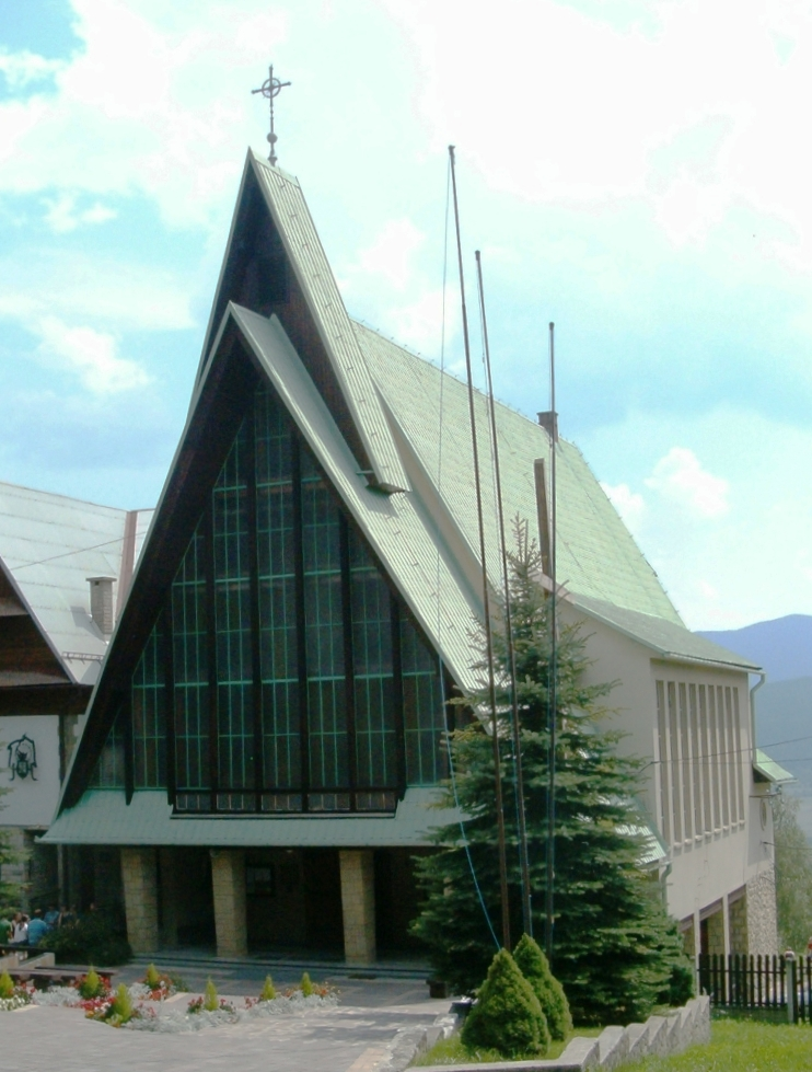 Klasztor Karmelitów Bosych in Zawoja